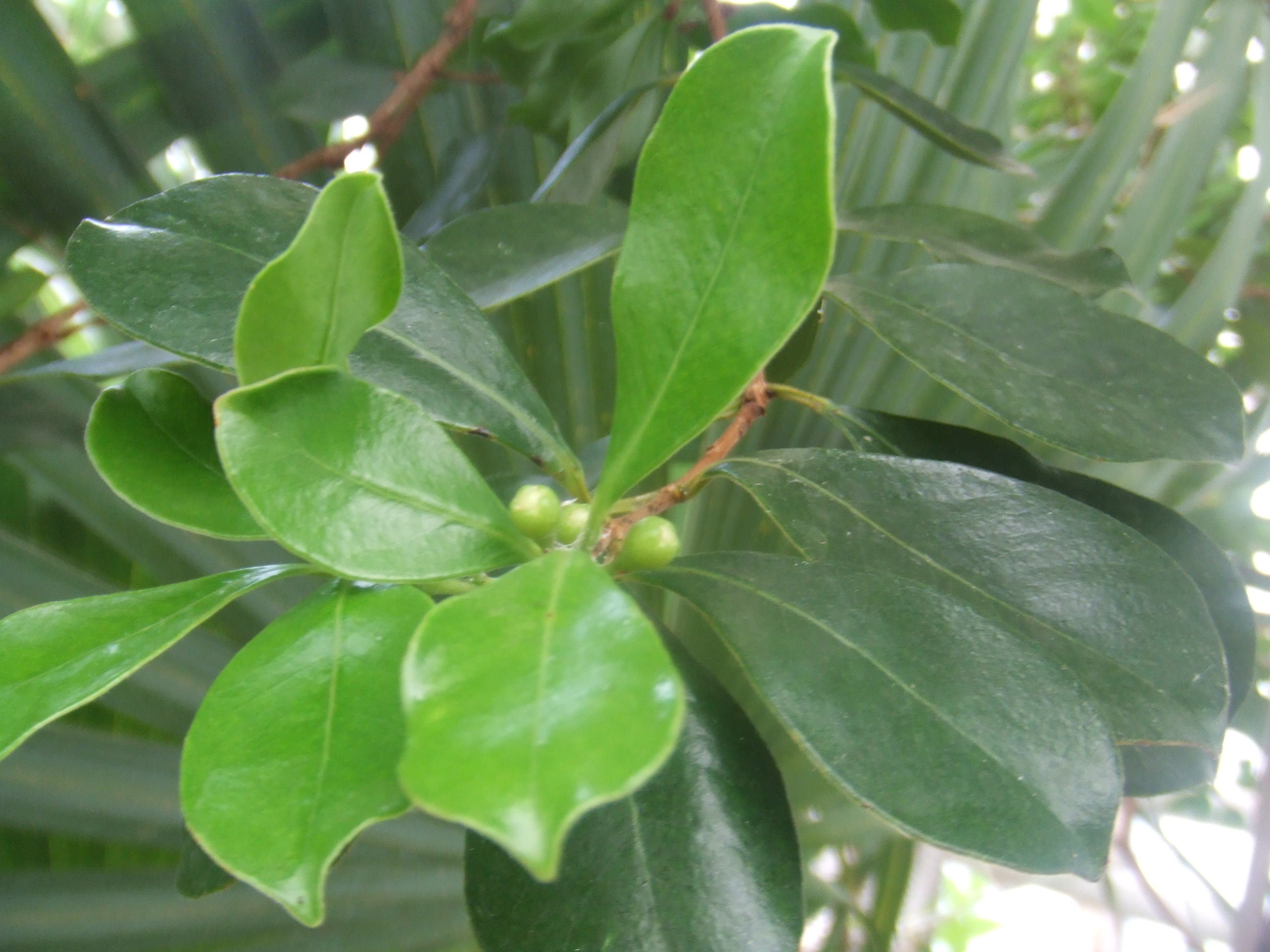 Psidium cattleianum, picture taken at the Botanische tuin TU Delft in Delft, The Netherlands